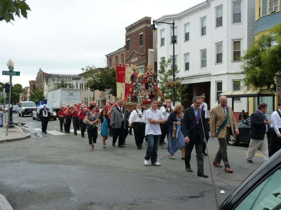 The annual procession to church with the statues of Saints Cosmas and Damian in Cabridge and Somerville in 2012.